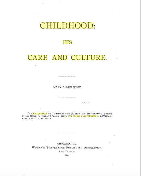 Childhood: Its Care and Culture, By Mary Allen West